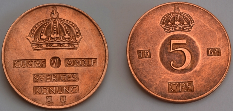 Swedish 5 öre coins from 1964